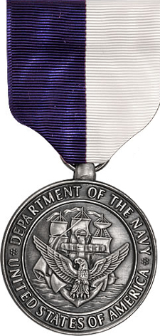 The Navy Superior Public Service Award is an award presented by the U.S. Secretary of the Navy to civilians. It is the second highest recognition that the Navy may pay to a civilian not employed by the Department of the Navy.